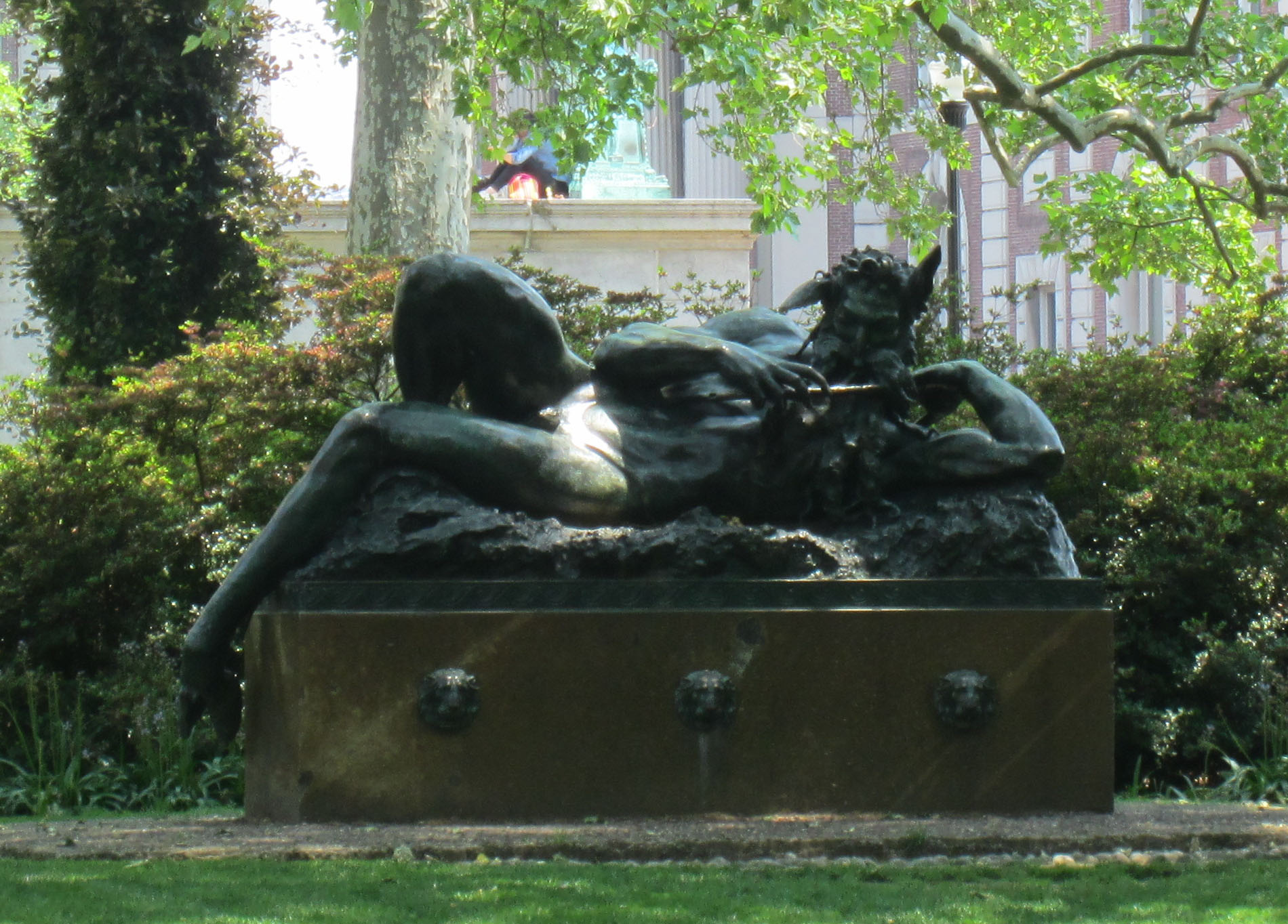 Columbia University, New York City (June 2014)